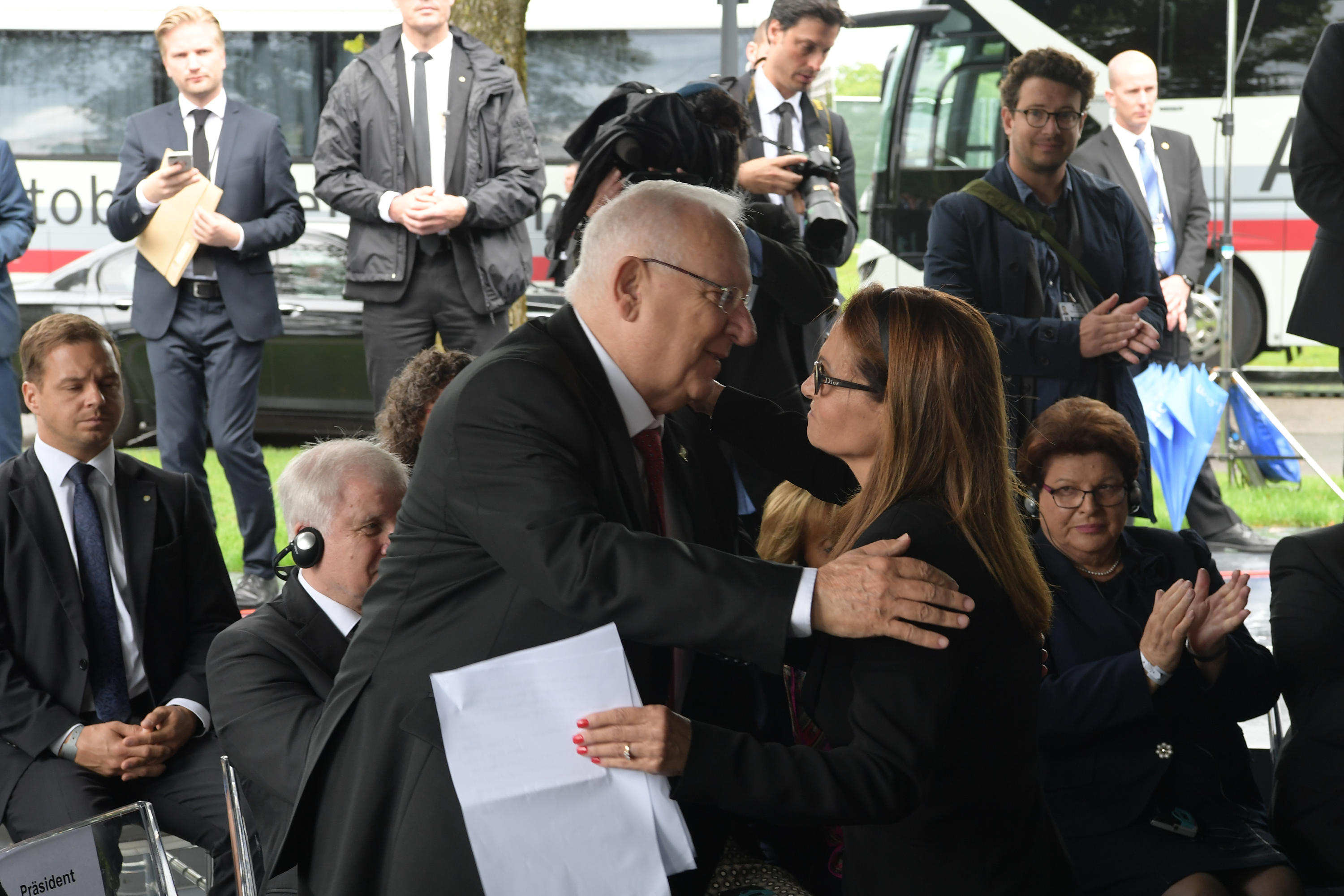 The President of the State of Israel, Reuven Rivlin, at the ceremony commemorating the victims of the Munich Olympics in 1972, after participating in the dedication ceremony of the athletes' memorial site, which was attended by the President of Germany and the Prime Minister of Bavaria. Wednesday, September 6, 2017. Photo credit: Amos Ben Gershom.